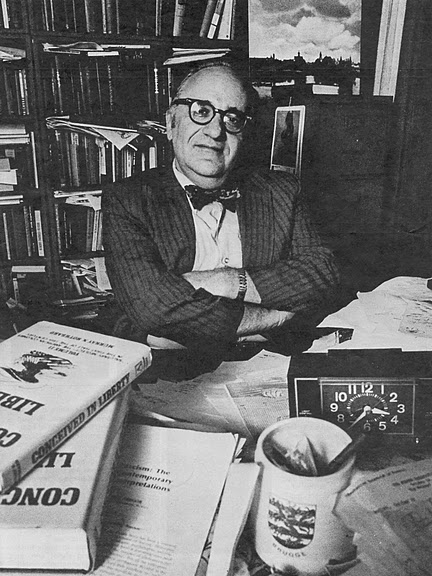 Rothbard Penthouse